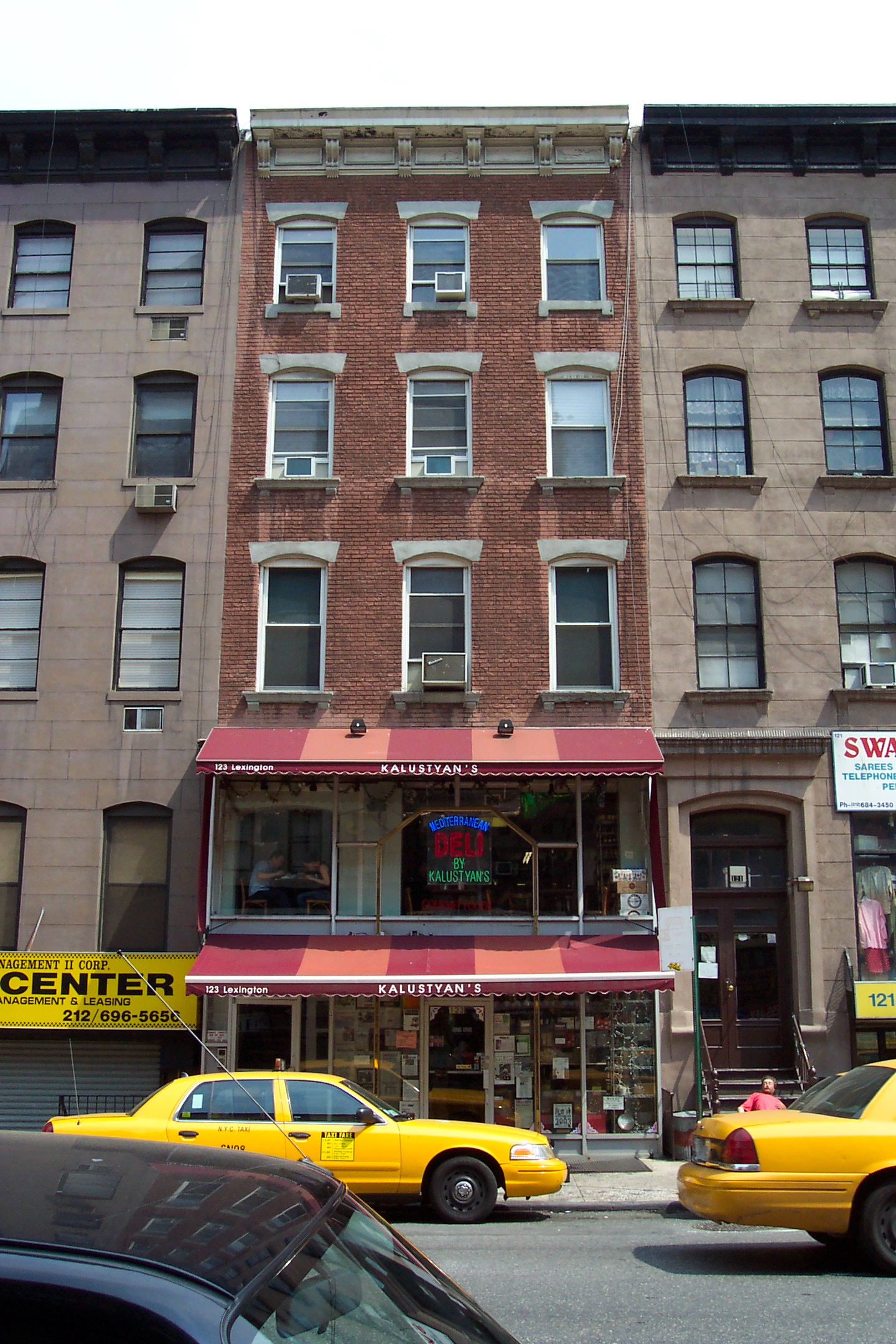 Chester A. Arthur home, New York City, 2007